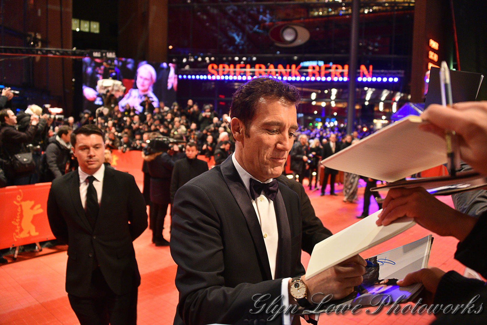 'Hail, Caesar!' Premiere during the 66th Berlinale International Film Festival on February 11, 2016 in Berlin, Germany. February in Berlin is all about film: international stars on the red carpet, enthusiastic fans from around the world – and, above all, some great films. Around 400 films are shown at the Berlinale and tickets are available for everyone, because the Berlinale is the world’s largest public film festival. For ten days, the festival features films that inspire, touch and let you discover new worlds. More Photos At